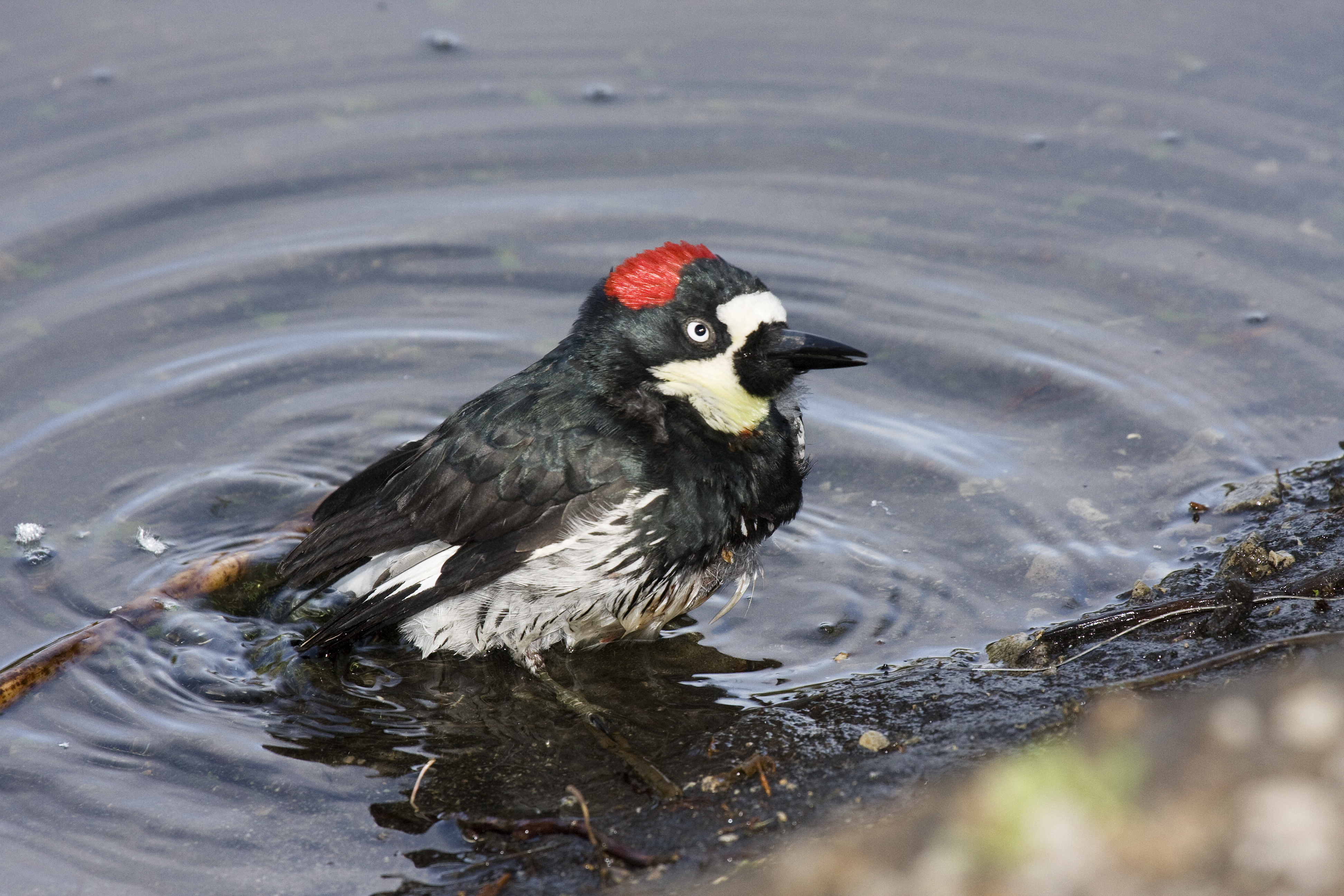 I was sitting so still that this female Acorn Woodpecker landed six feet from me in the water and began taking a bath. This was a first for me.